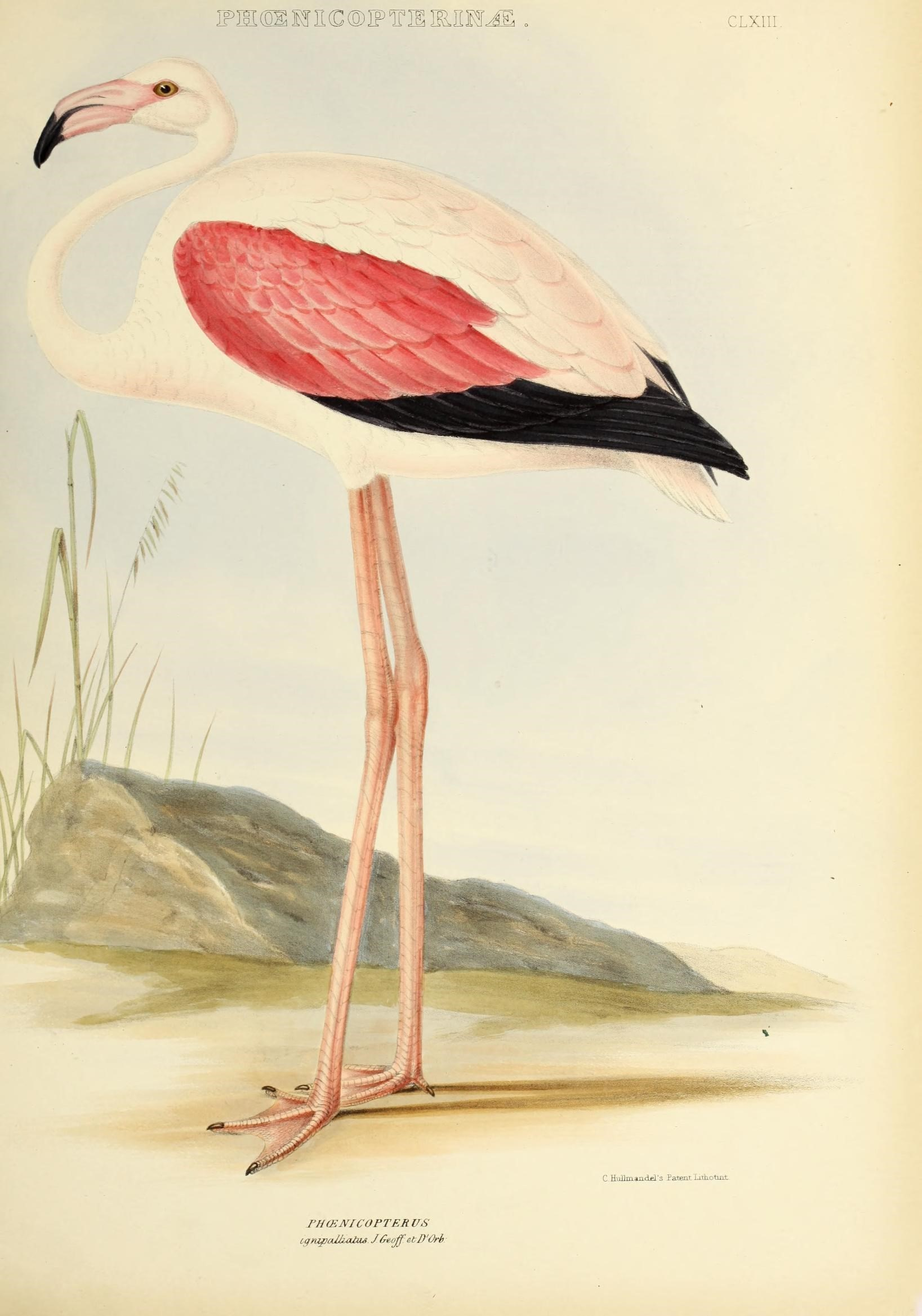 Phoenicopterus ignipalliatus, now Phoenicopterus chilensis